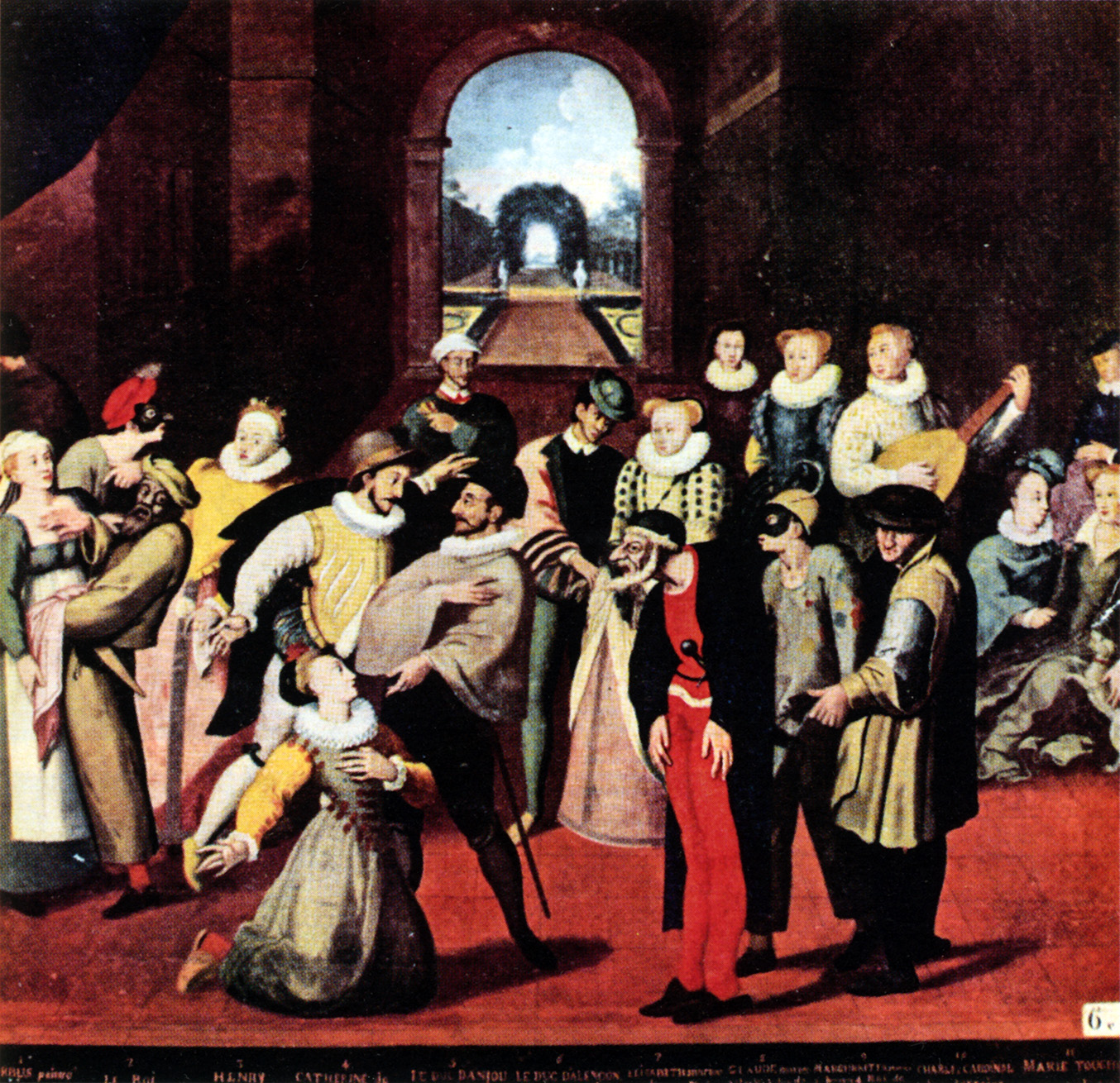 A scene from the commedia dell'arte played in France before a noble audience, probably Flemish, possibly painted by a student of Frans Floris, according to the art historian Charles Sterling (1943, p. 18). It is one of the oldest images of the commedia dell'arte in France. Pantaloon is front and center on the stage. Just to to the right and slightly behind is an actor in motley costume, identified as Harlequin by both Duchartre and Sterling. The latter says it is "the oldest known version of Harlequin's costume."